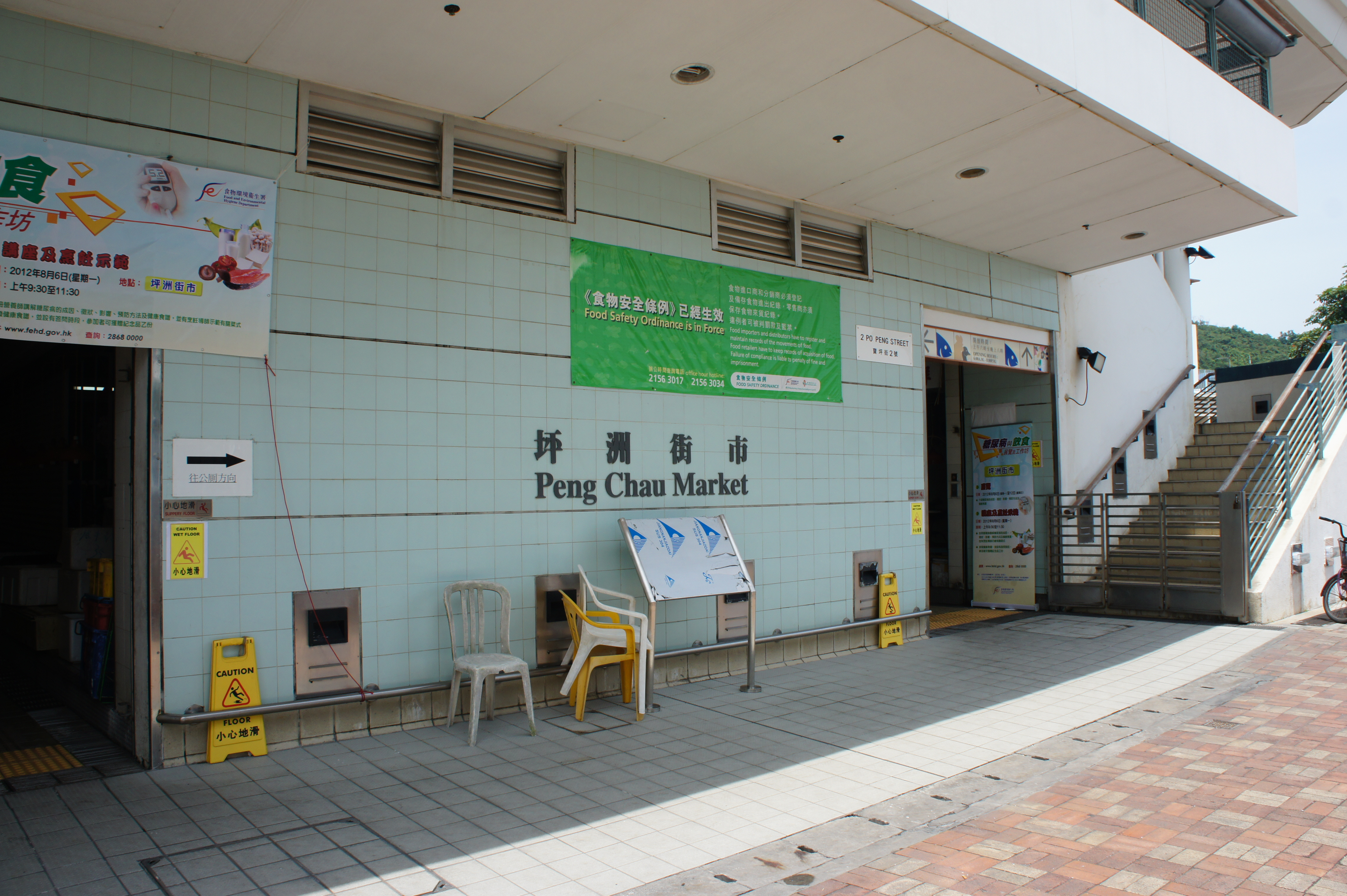 Peng Chau Market, Peng Chau, New Territories, Hong Kong.